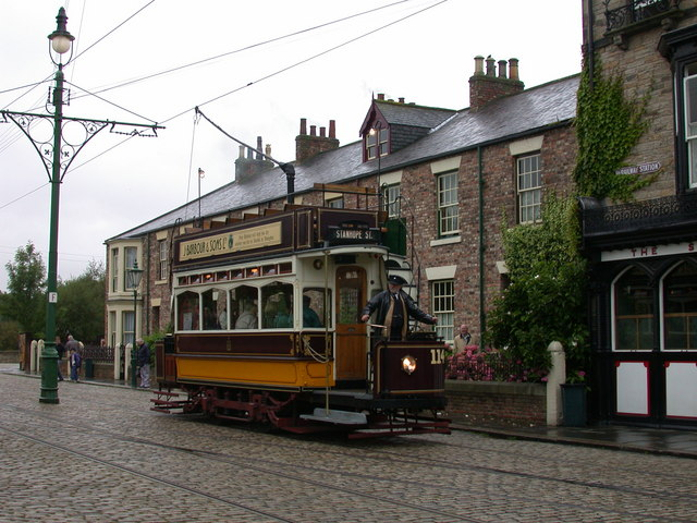 Tram No. 114 on the tramway at Beamish Museum, County Durham, England. It's seen here in the Town section on the main street, viewed from the east, while working an eastbound journey. Behind it is Ravensworth Terrace.